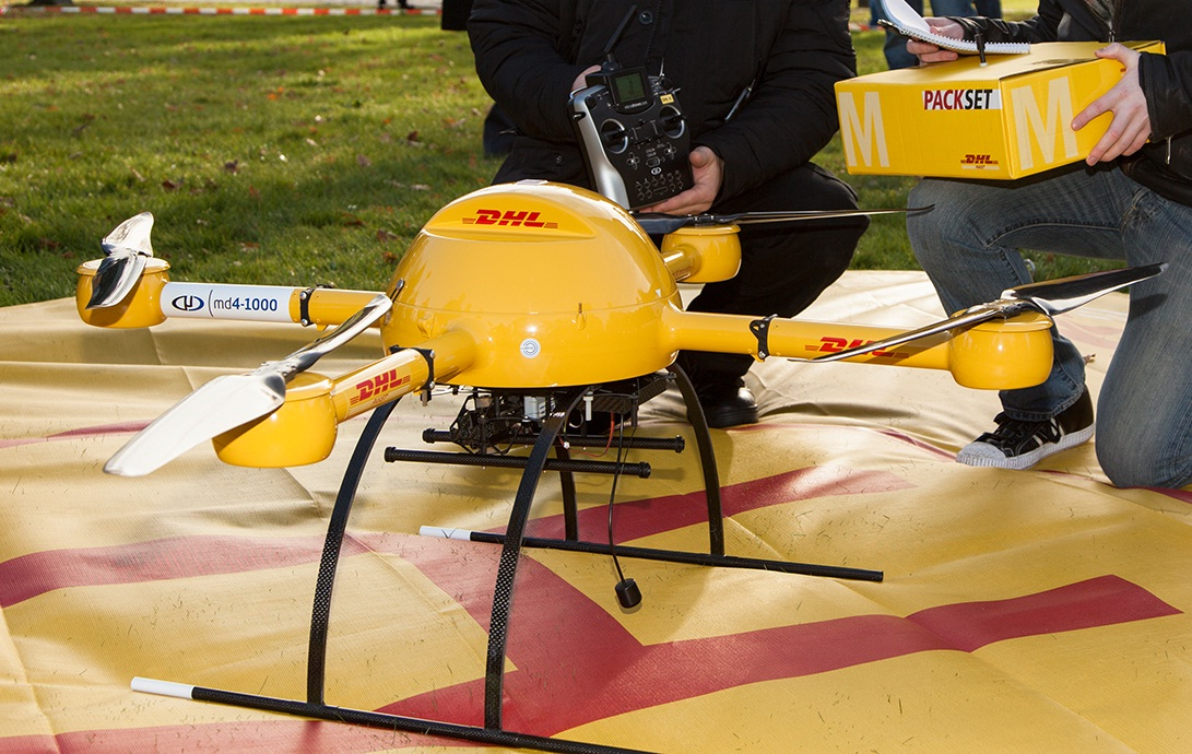 In December 2013, the German Deutsche Post AG tested a microdrones md4-1000 for delivery.